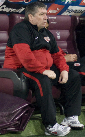 Dinamo Bucharest at 2009 Romanian Cup semifinal (CFR Cluj - Dinamo Bucuresti 2-1)